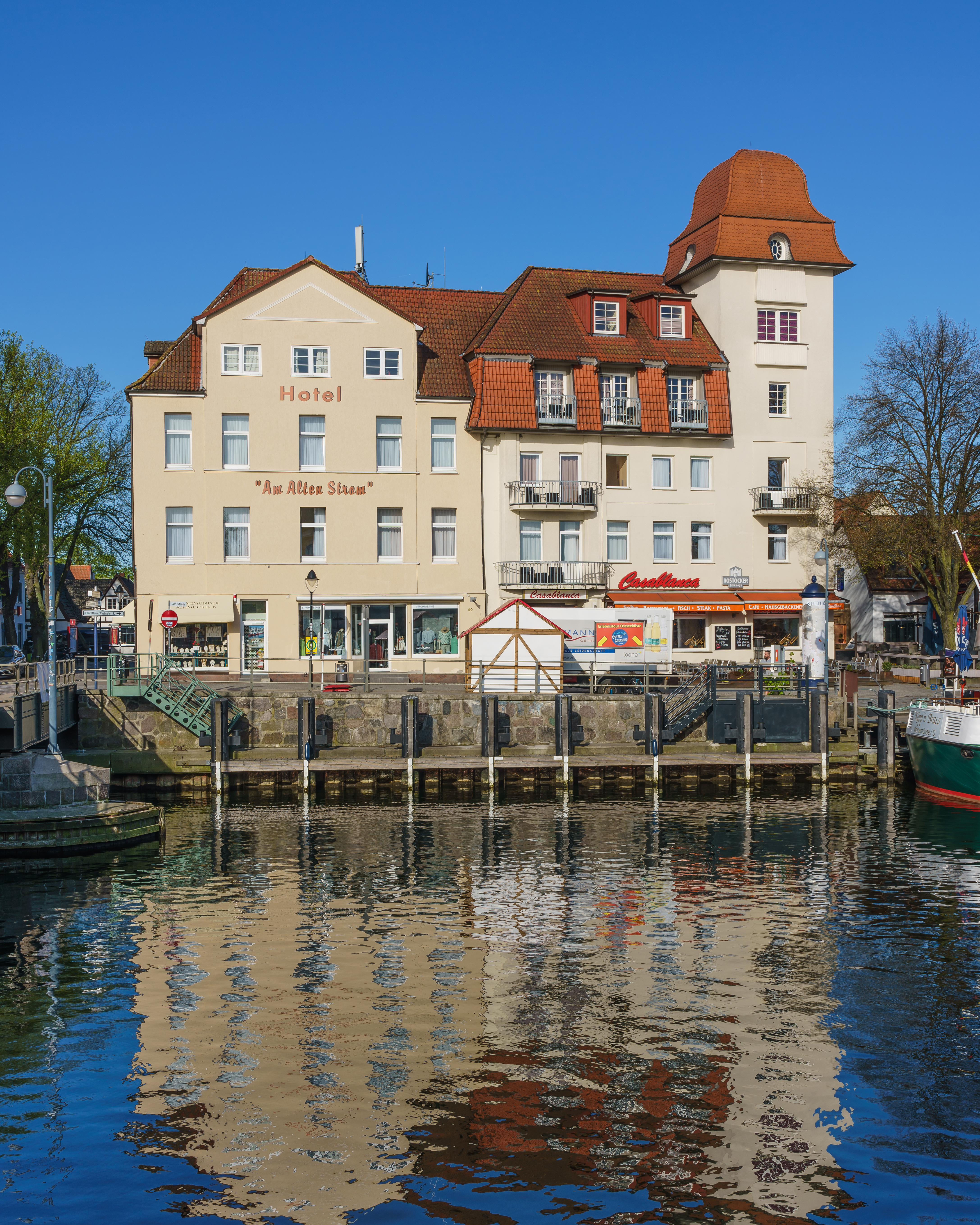 Surroundings of the port of Warnemünde, Rostock, Germany